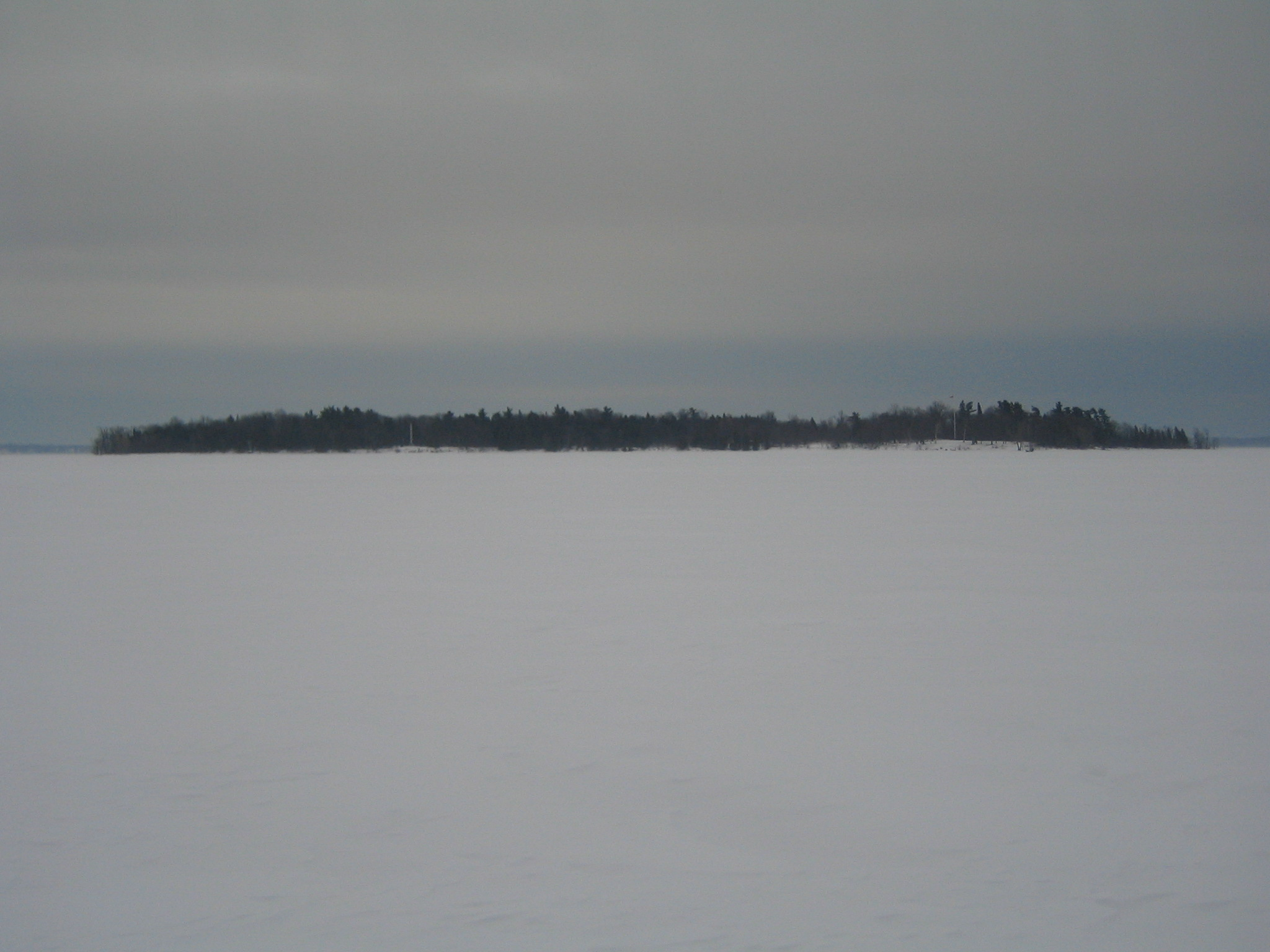 Crab Island as seen in January 2009 from the ice of frozen Lake Champlain.